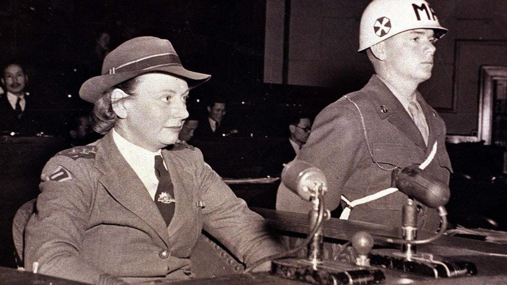 Vivian Bullwinkel giving evidence at the War Crimes trials, Tokyo, 1946[1], 1946 VX61330 Captain (Capt) Vivian Bullwinkel (left) sitting in a witness stand, giving evidence before the War Crimes Tribunal. Capt Bullwinkel was a nurse in the Australian Army Nursing Service (AANS), and was aboard the Vyner Brooke when it was attacked and sunk on 14 February 1942. She made it to shore almost immediately and the following morning she and British soldier, 7654688 Private (Pte) Cecil Gordon Kinsley, survived the massacre of the nurses, soldiers and civilians at the hands of the Japanese. They surrendered as prisoners of war (POWs) 12 days later and she was held in POW camps in Sumatra until September 1945. Pte Kinsley died soon after they were captured.